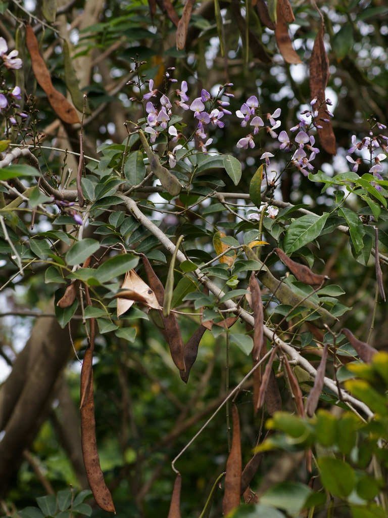 Millettia thonningii - flowers, leaves and seedpods